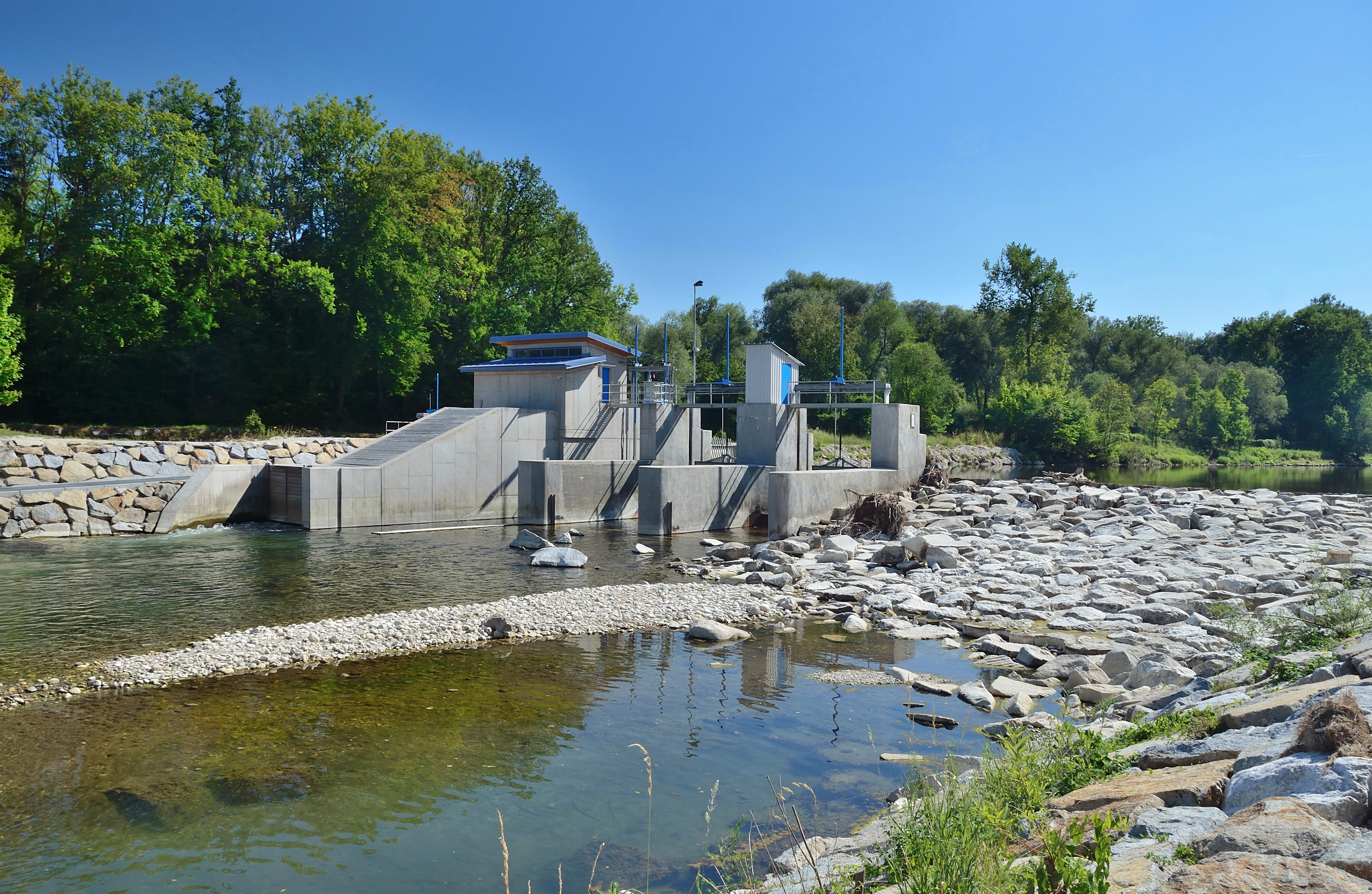 The run-of-the-river hydroelectric power plant Hart is located on the river Ager in Upper Austria in the municipality of Schlatt